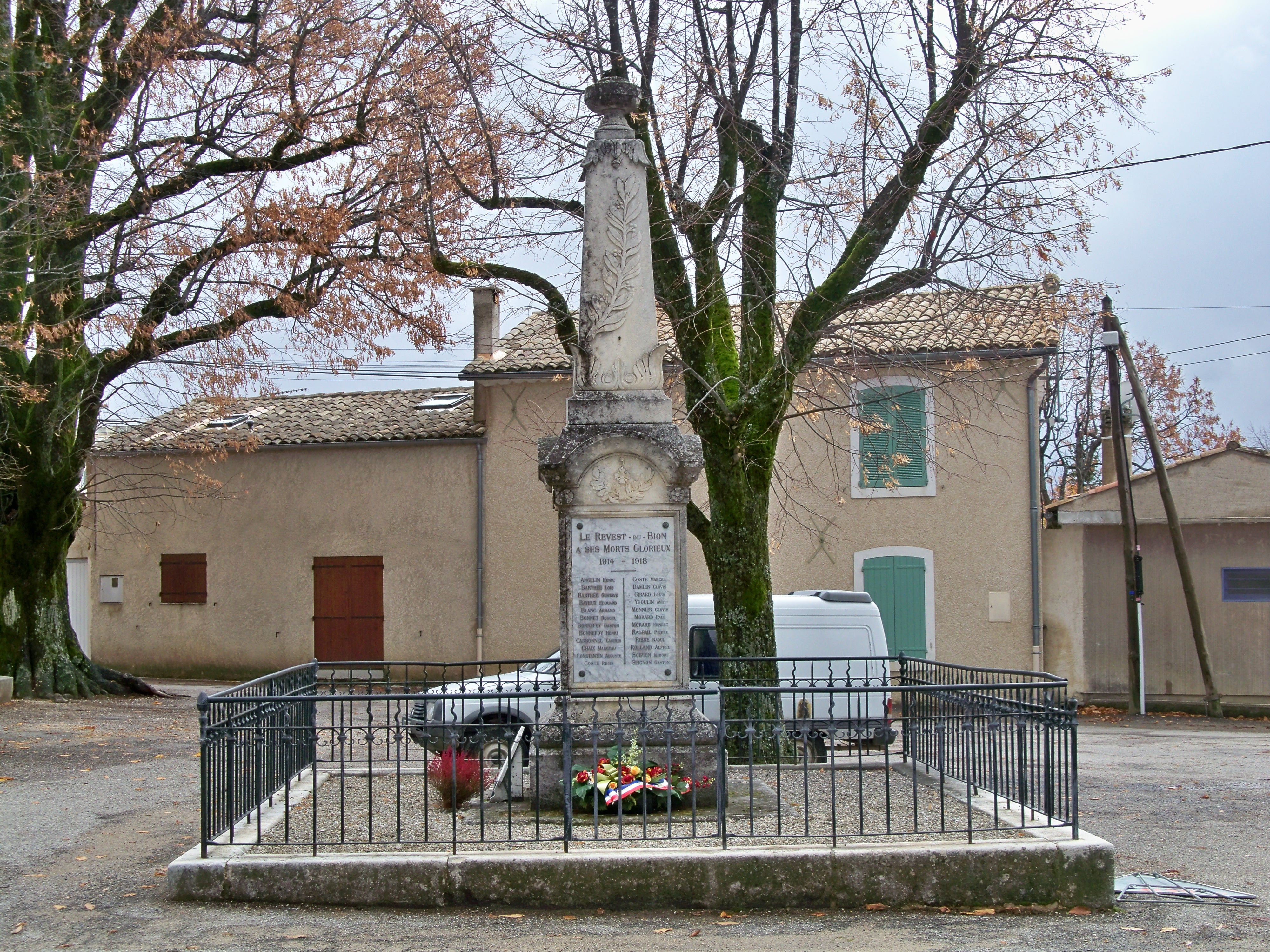 Soldiers Memorial in Revest du Bion